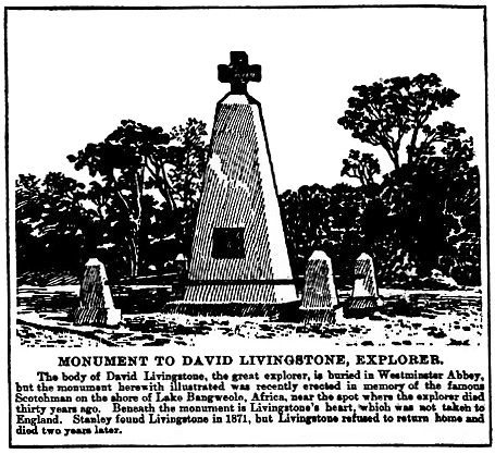 Cropped from the newspaper shown. Sharpened and rotated using GIMP.